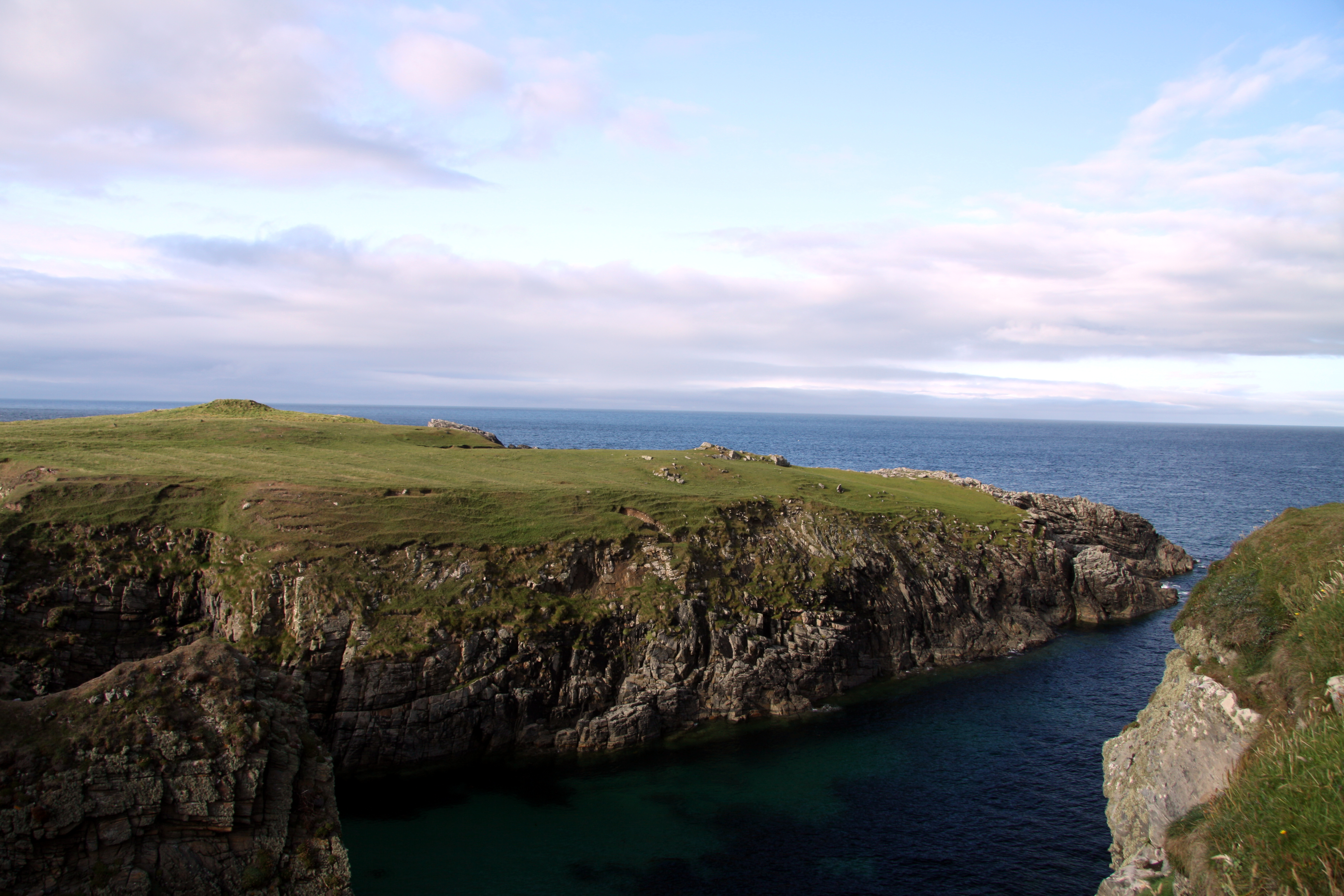 Dún Éistean Late Medieval Fort near the village Port of Ness, Lewis Island, Outer Hebrids, Scotland